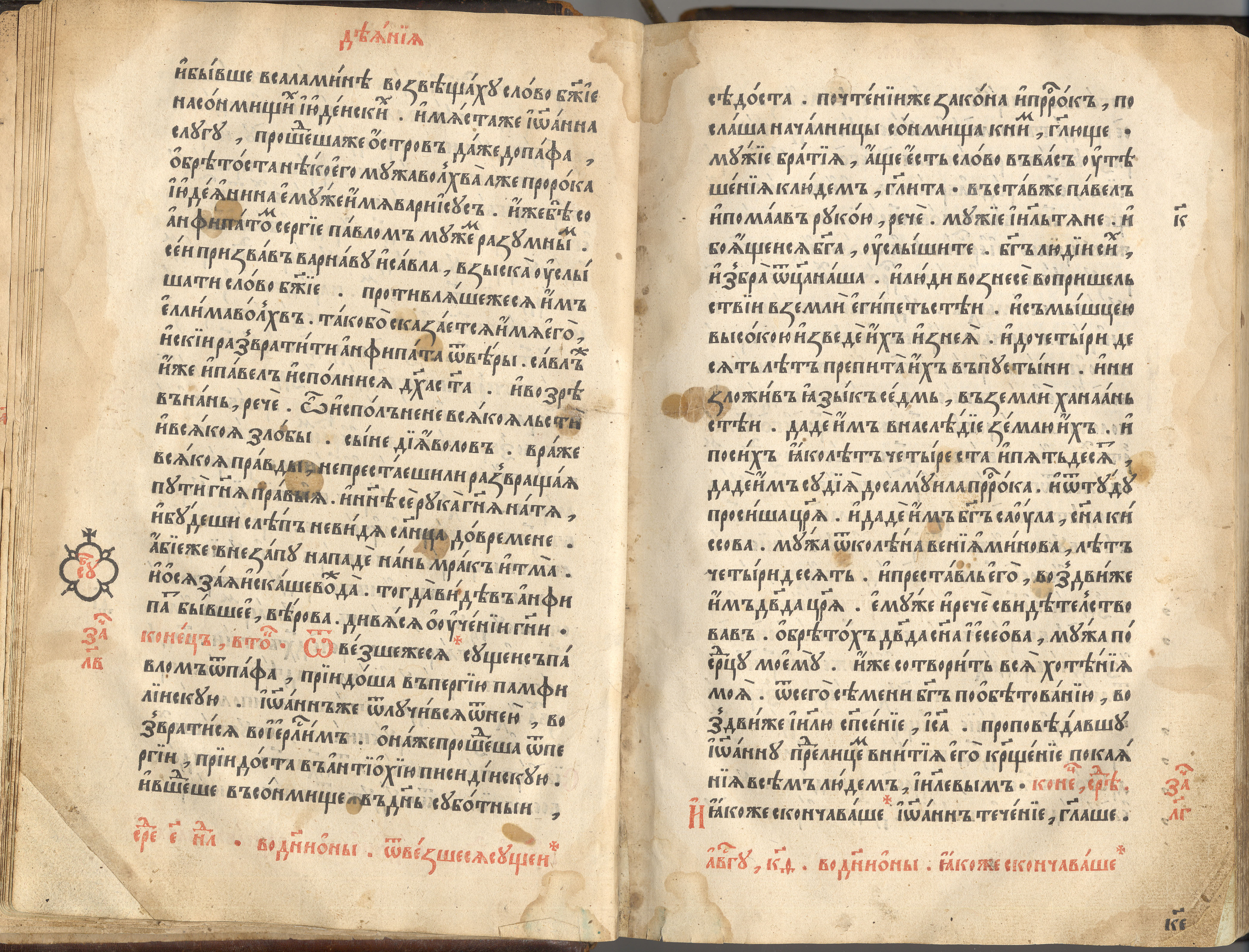 Page-spread from "Apostol" printed by Ivan Fyodorov and Pyotr Mstislavets in 1564/1564 at Moscow. Copy of the Siberian Department of Russian Academy of Sciences.